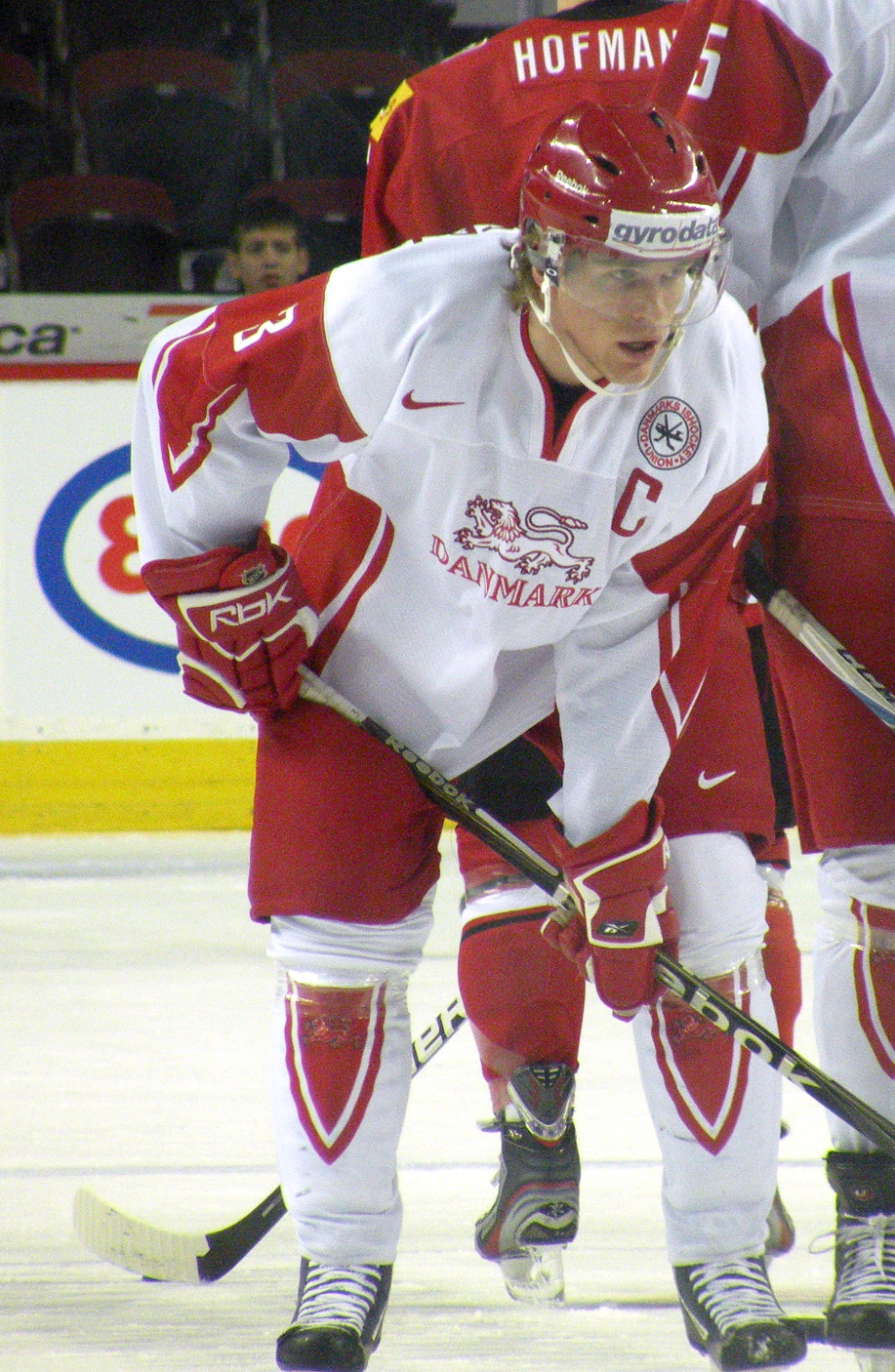 Danish defenceman Jannik Christensen prior to a game against Team Switzerland at the 2012 World Junior Hockey Championships at Calgary, Alberta, Canada.